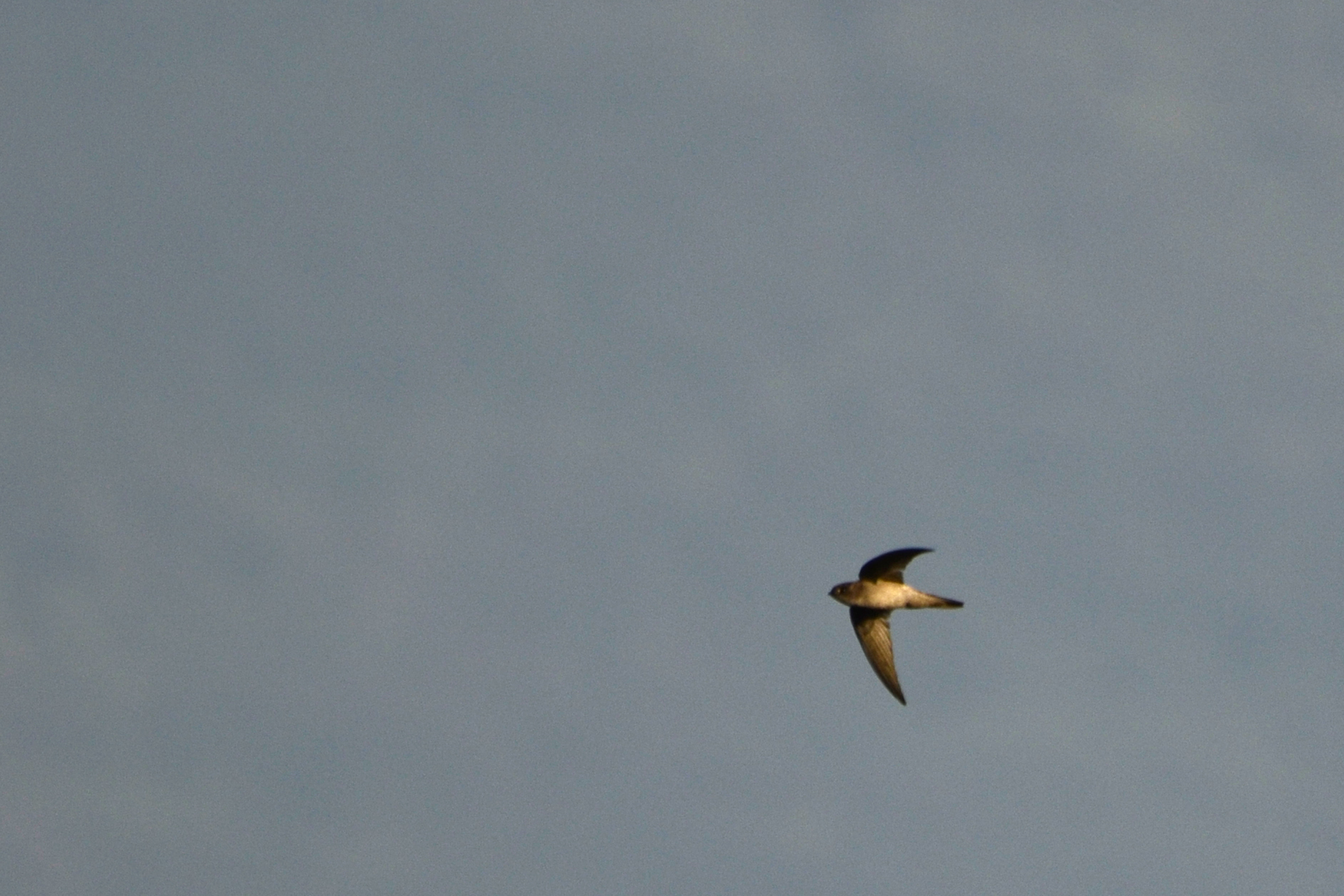 Indian swiftlet or Indian edible-nest swiftlet (Aerodramus unicolor) from Anaimalais